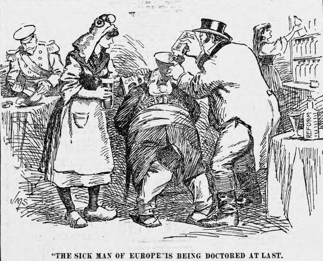 Political cartoon by JM Staniforth. National representations of the Great Powers of Europe, "heal" a subdued Crete, dressed in Turkish garb the ruling power on the island at the time, in the aftermath of the Cretan Uprising in 1898.